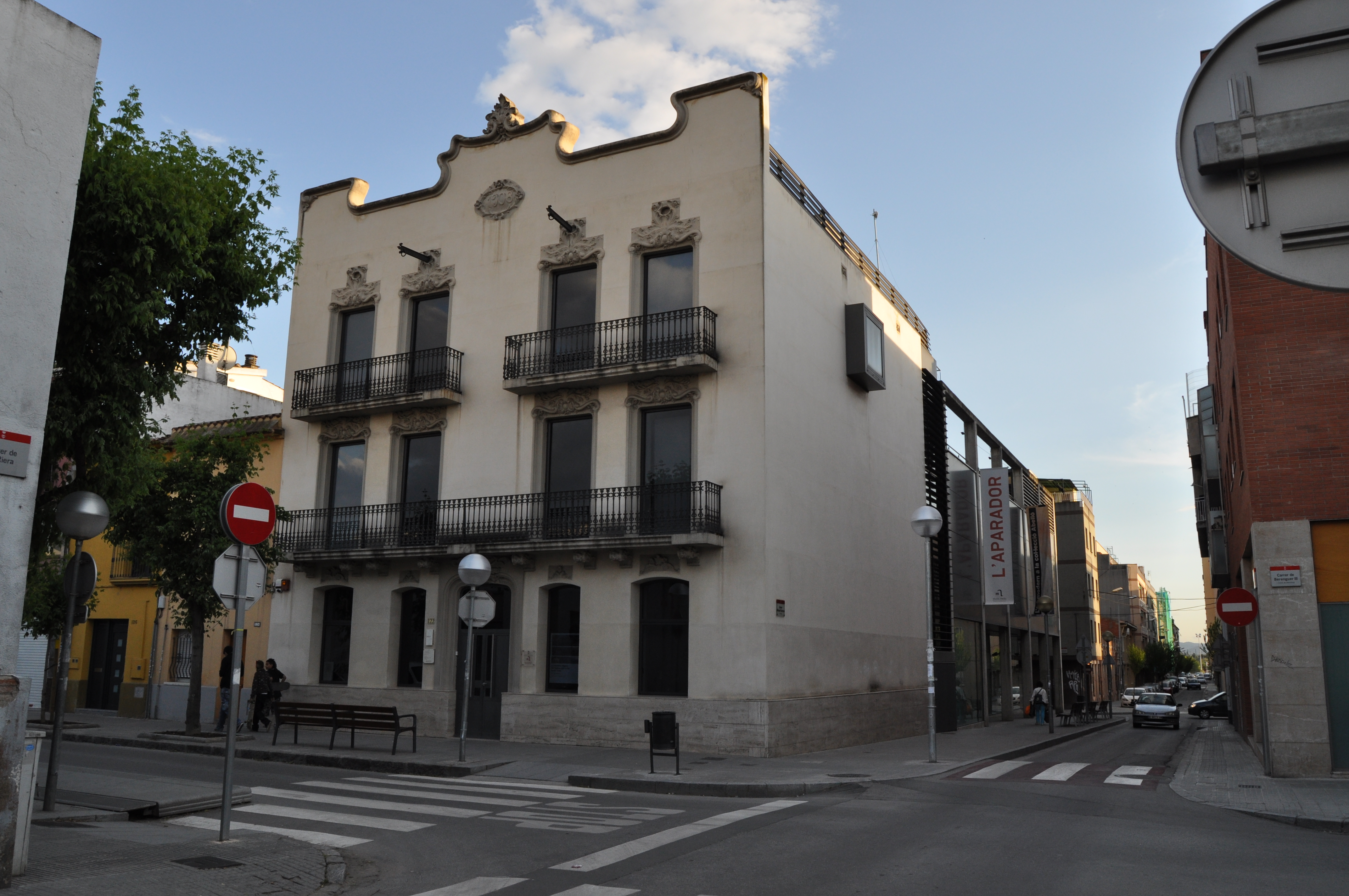 Abelló Museum (Mollet del Vallès, Catalonia, Spain). Abelló Museum Native nameMuseu AbellóParent institutionBarcelona Provincial Council Local Museum Network LocationMollet del Vallès, provincia de Barcelona, (Spain)Coordinates41° 32′ 08.24″ N, 2° 12′ 58.33″ E Established1999Web page control : Q3820914 VIAF: 151779684 GND: 4700554-3 SUDOC: 18341926X BNE: XX183169 Catalunya: 35159 institution QS:P195,Q3820914